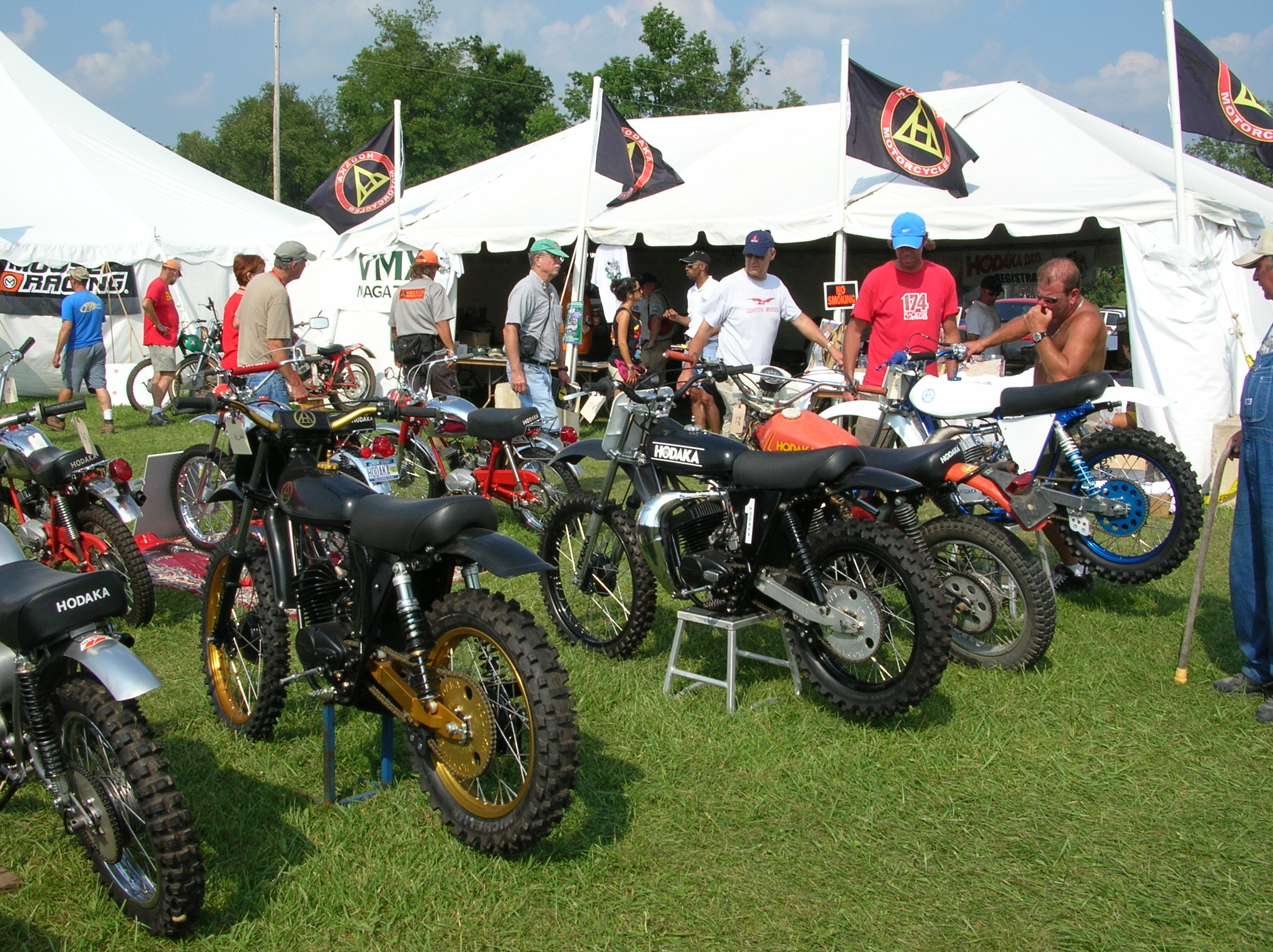 Summary: A group of Hodaka offroad motorcycles at the July 28, 2006 AMA Vintage Motorcycle Days in Lexington, OH Author: Jamie Aaron, , Not copyrighted, Freely Distributed, Made by my own Digital Camera